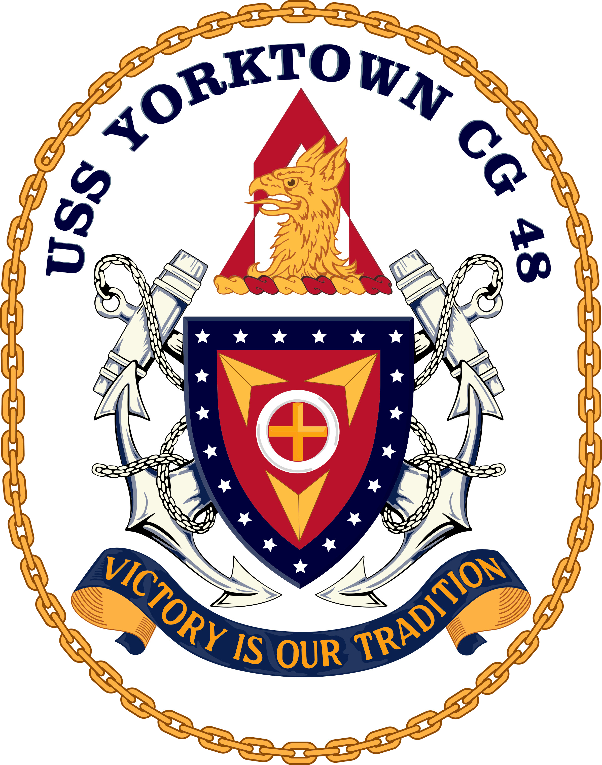 USS Yorktown CG-48 Crest